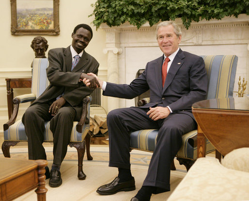 Original caption states "President George W. Bush welcomes Sudanese Liberation Movement leader Minni Minnawi to the Oval Office Tuesday, July 25, 2006, in Washington, D.C., meeting to discuss the Darfur region of western Sudan."